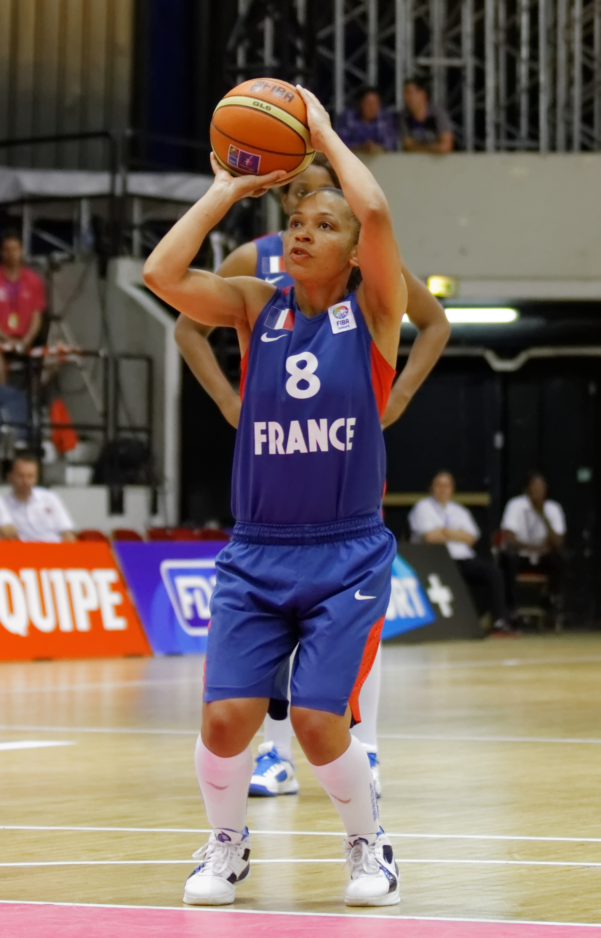 EuroEssonne, France - Canada, 7 June 2013.